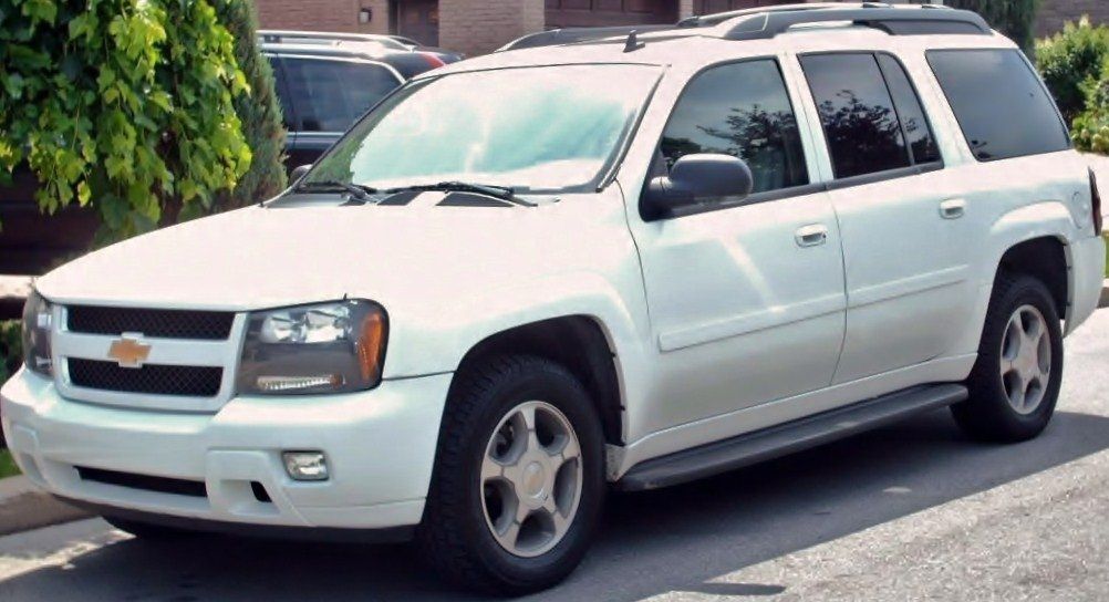 2006 Chevrolet TrailBlazer EXT photographed in Dollard Des Ormeaux, Quebec, Canada.